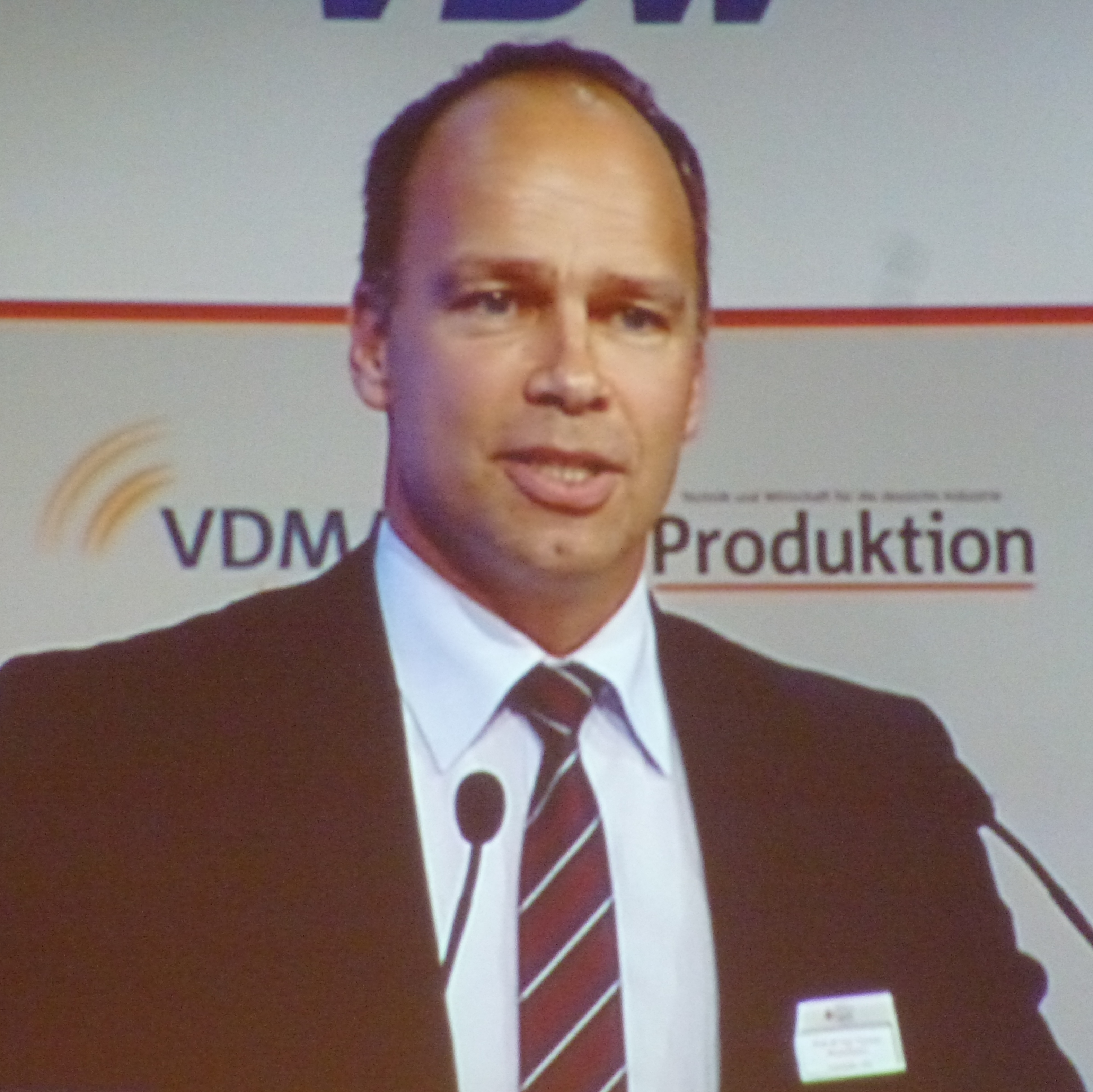 Prof. Thomas Bauernhansl, Director of Fraunhofer Institute IPA